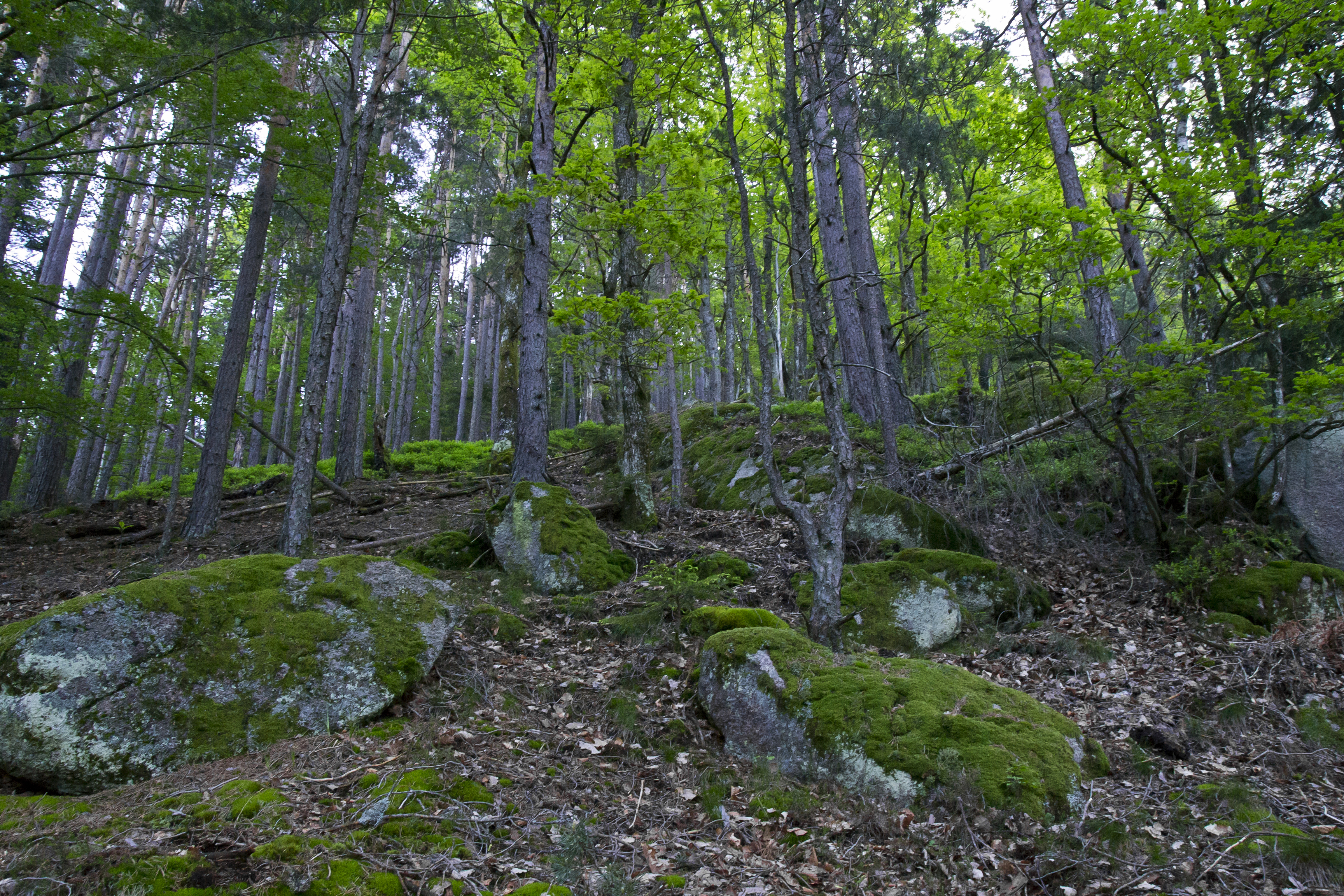 trees, forest, rocks, stone, green